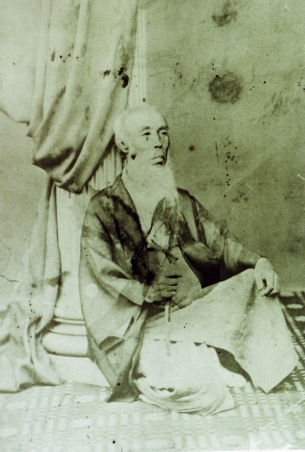 The photograph of Satō Taizen.